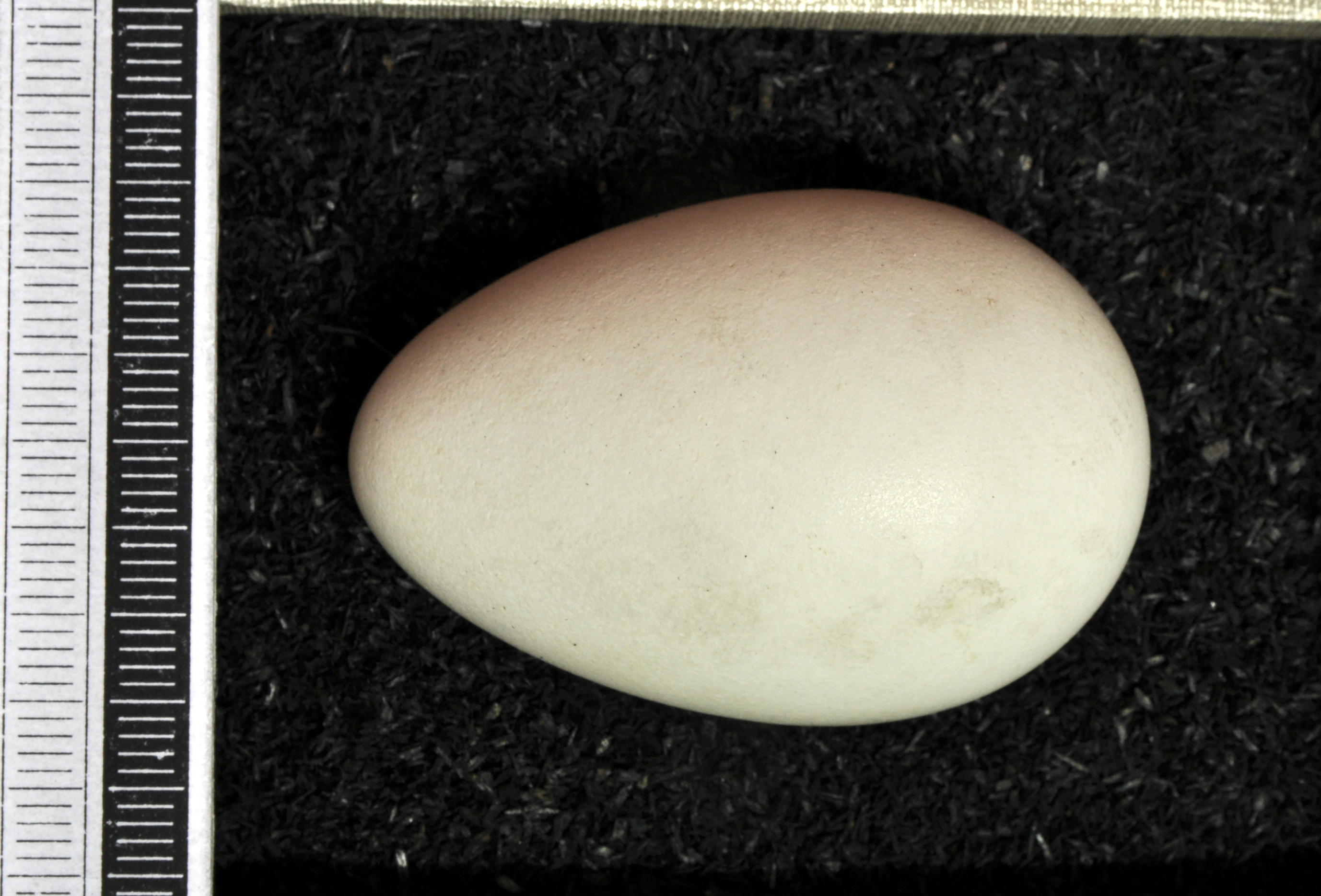 Little auk Alle alle , egg, Coll. Museum Wiesbaden